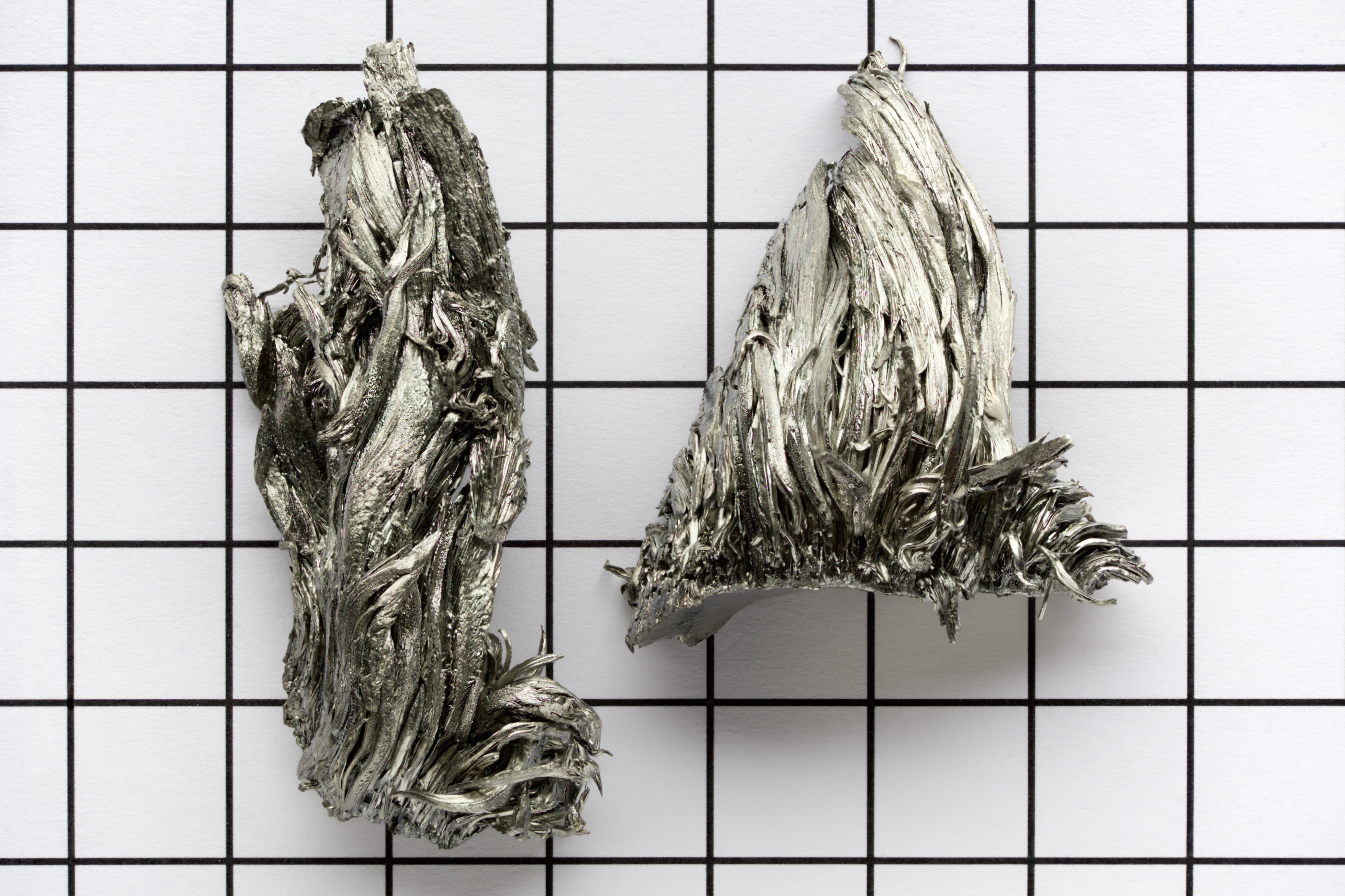 Yttrium Y, sublimed dendritic, purity ≥99,99%, ~30 g, grid size 1cm